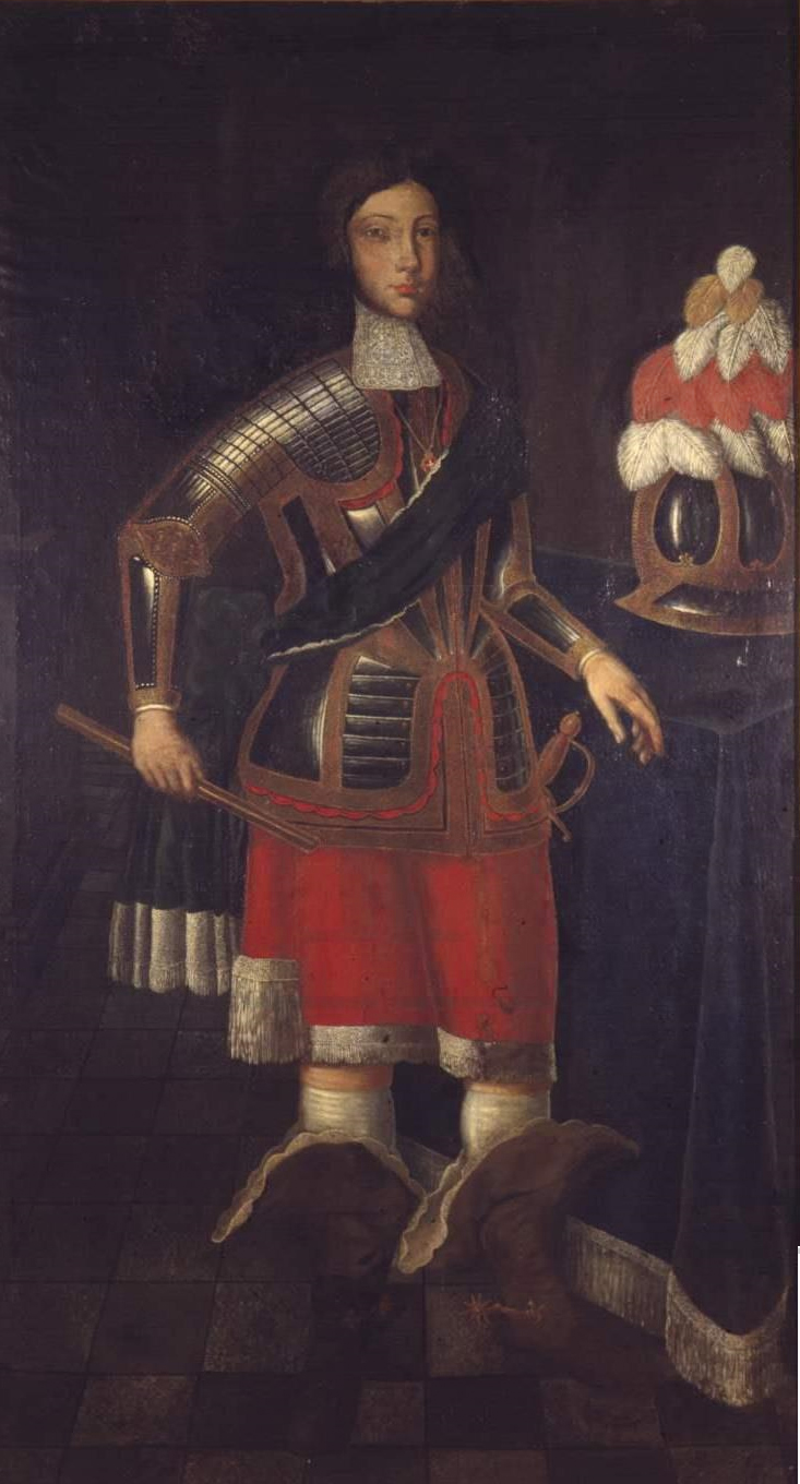 Portrait of Teodósio, Prince of Brazil (1634-1653)